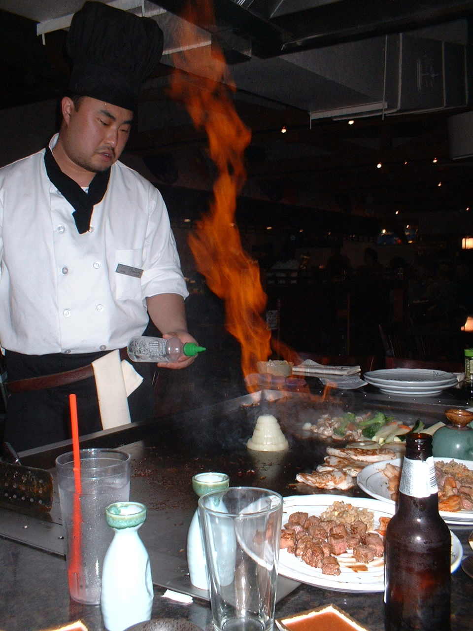 yesterday was the birthday dinner for Simone... we went to the Yanagi sushi, they have teppan grills... this was very entertaining.